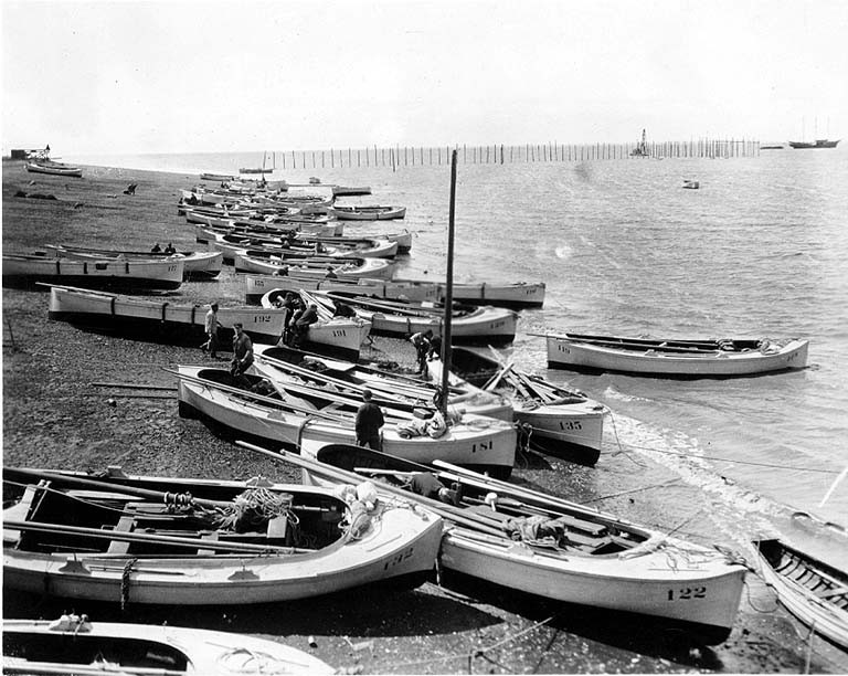 From John Cobb field notebook:Gill net boats at N.C., Nushagak. 1917 . Possibly the Alaska Packers Association cannery at Clark Point. Subjects (LCTGM): Fishermen--Alaska--Nushagak Subjects (LCSH): Fishing boats--Alaska--Nushagak; Salmon industry--Alaska--Nushagak